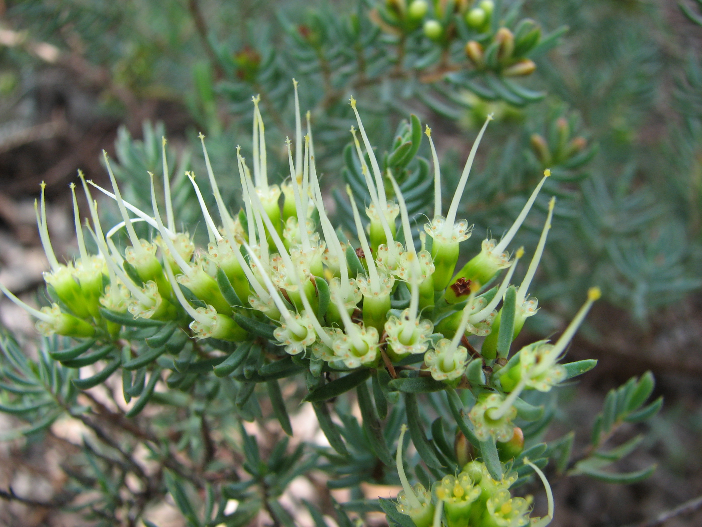 Homoranthus papillatus (cultivated, labelled), Maranoa Gardens, Balwyn, Victoria, Australia